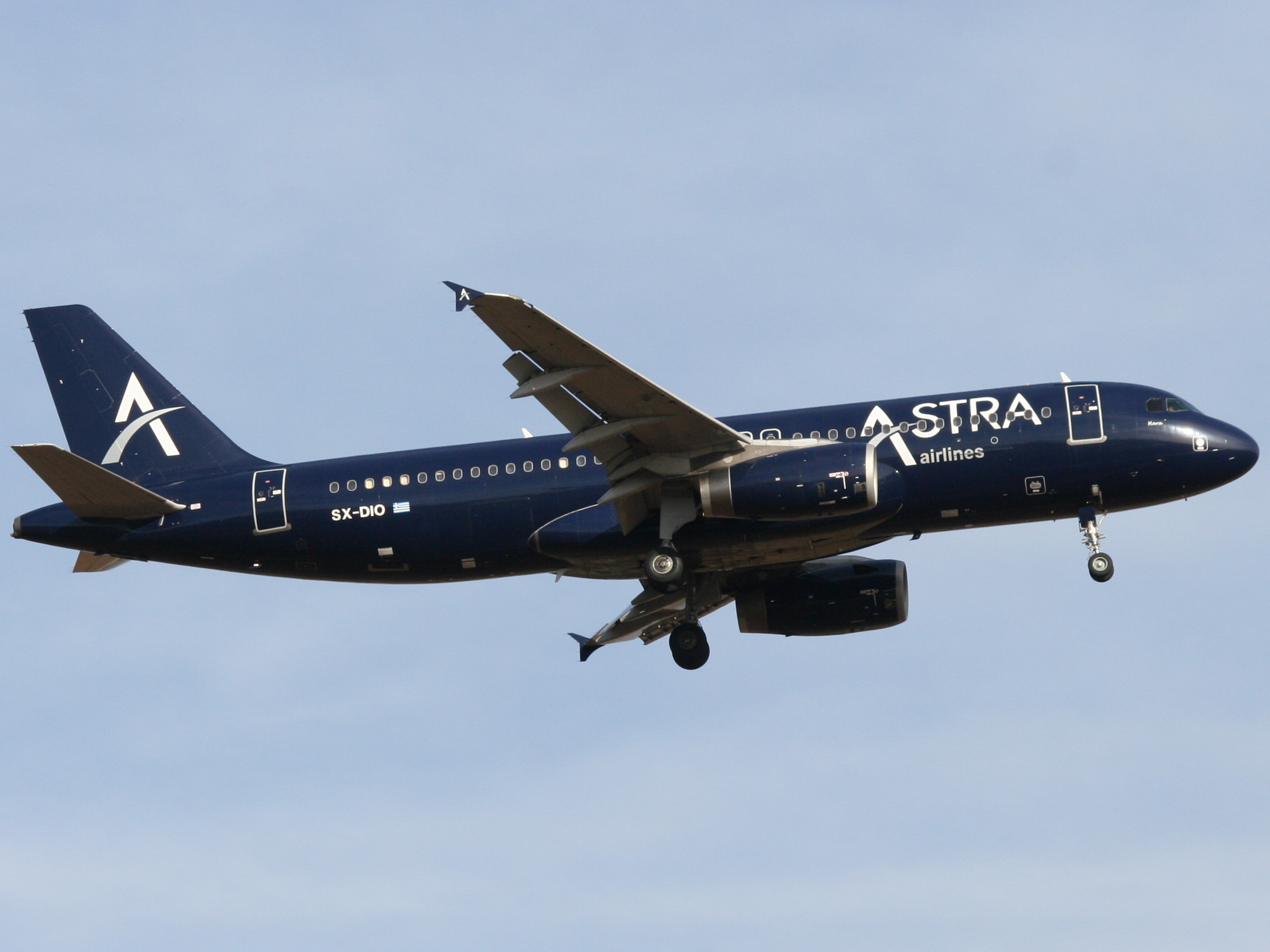 Landing on 21 at Ben Gurion International airport